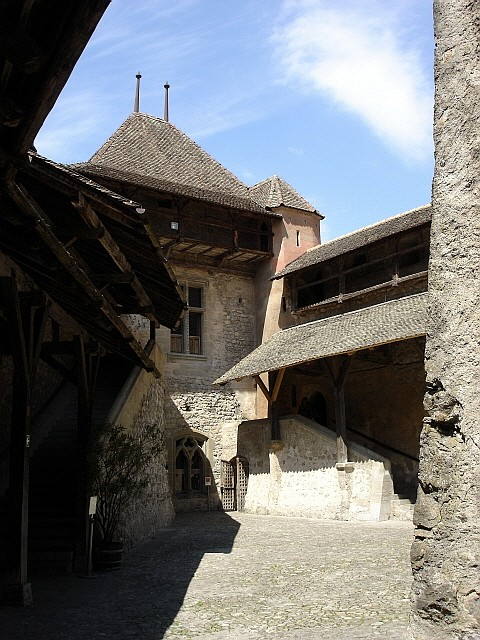 Chillon